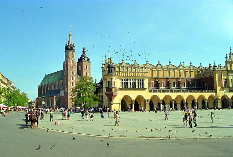 Krakow (Poland) Marquet Square